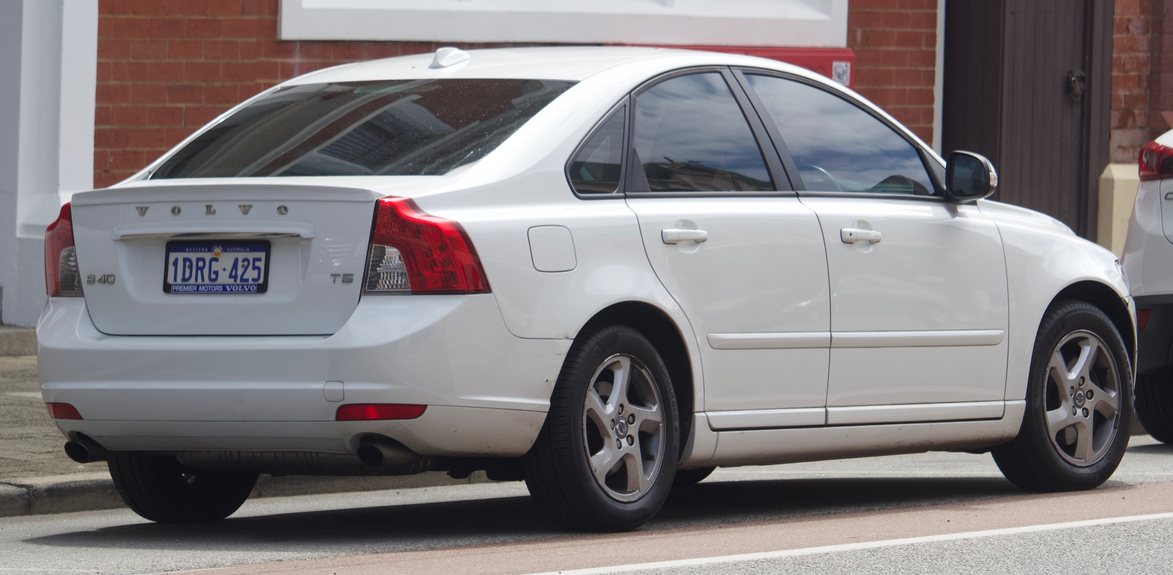 2011 Volvo S40 T5 sedan. Photographed in Fremantle, Western Australia, Australia.